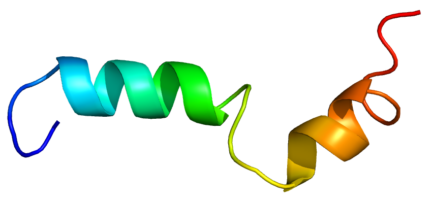 Structure of protein CNR2.Based on PyMOL rendering of PDB 2KI9.